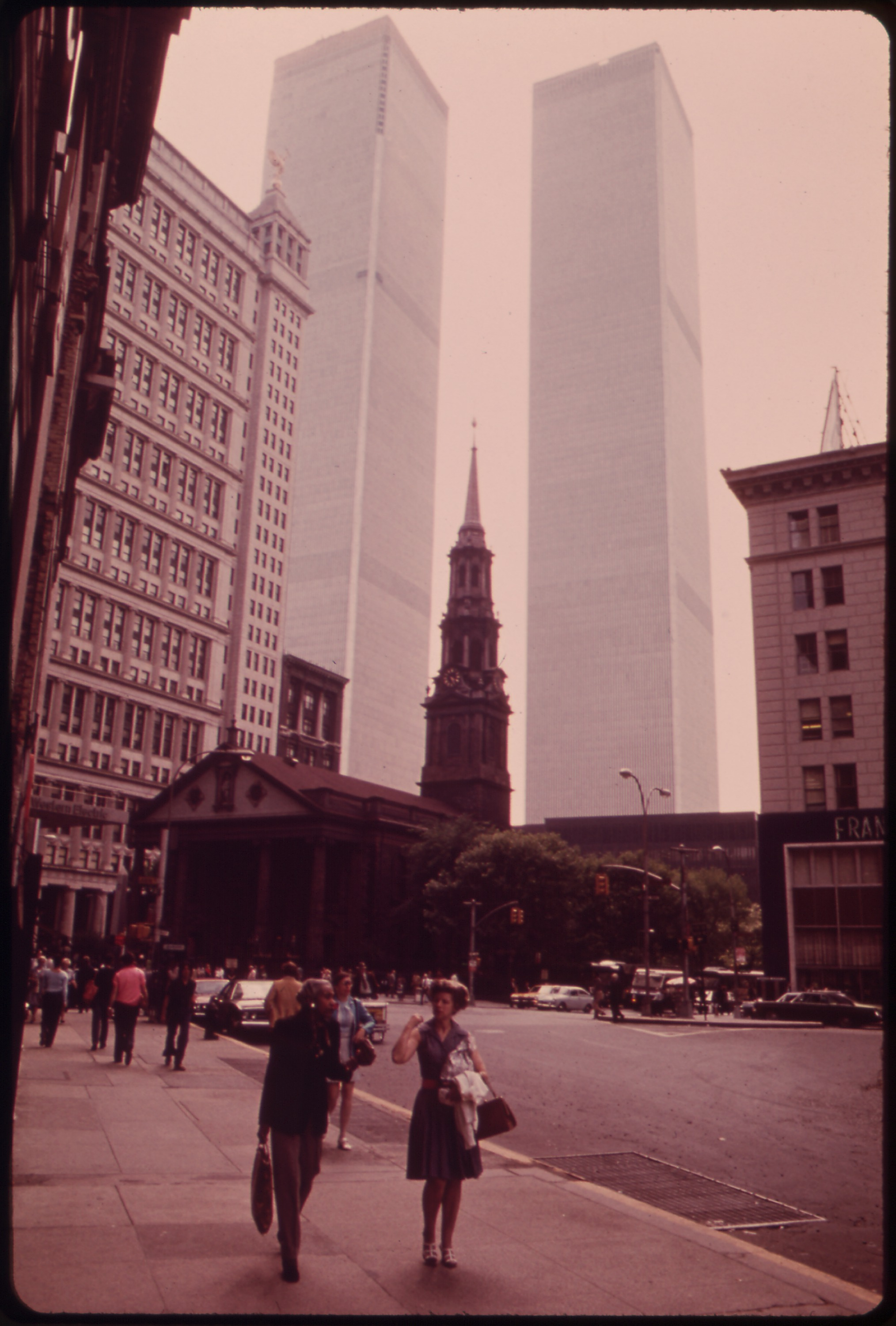 Scope and content: Original Caption: Historic Trinity Church on lower Broadway at the foot of Wall Street. Behind loom the towers of one of Manhattan's newest giants, The World Trade Center.